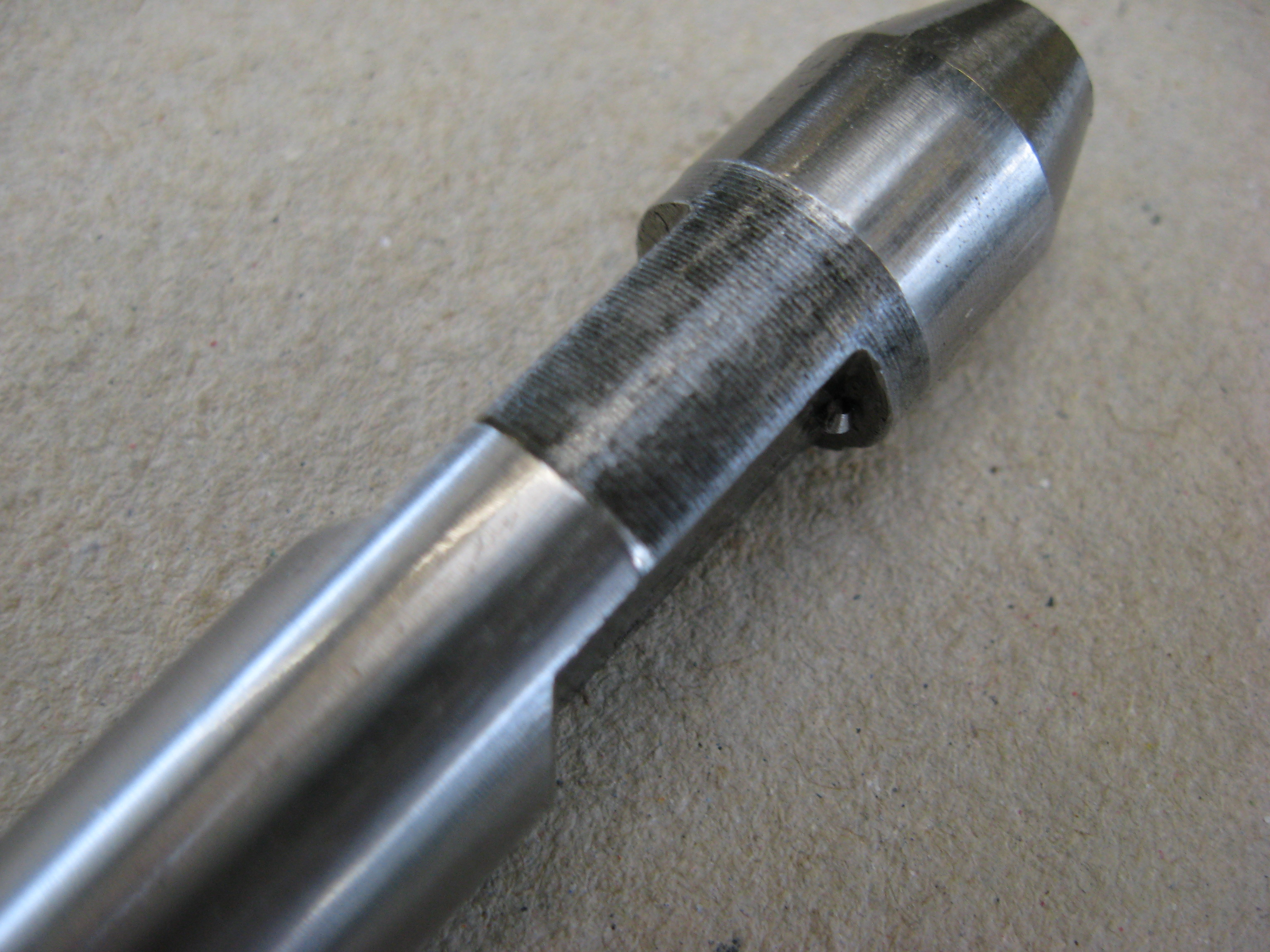 A broach shaft, specifically showing where the broaching machine latches on to pull it through the workpiece.